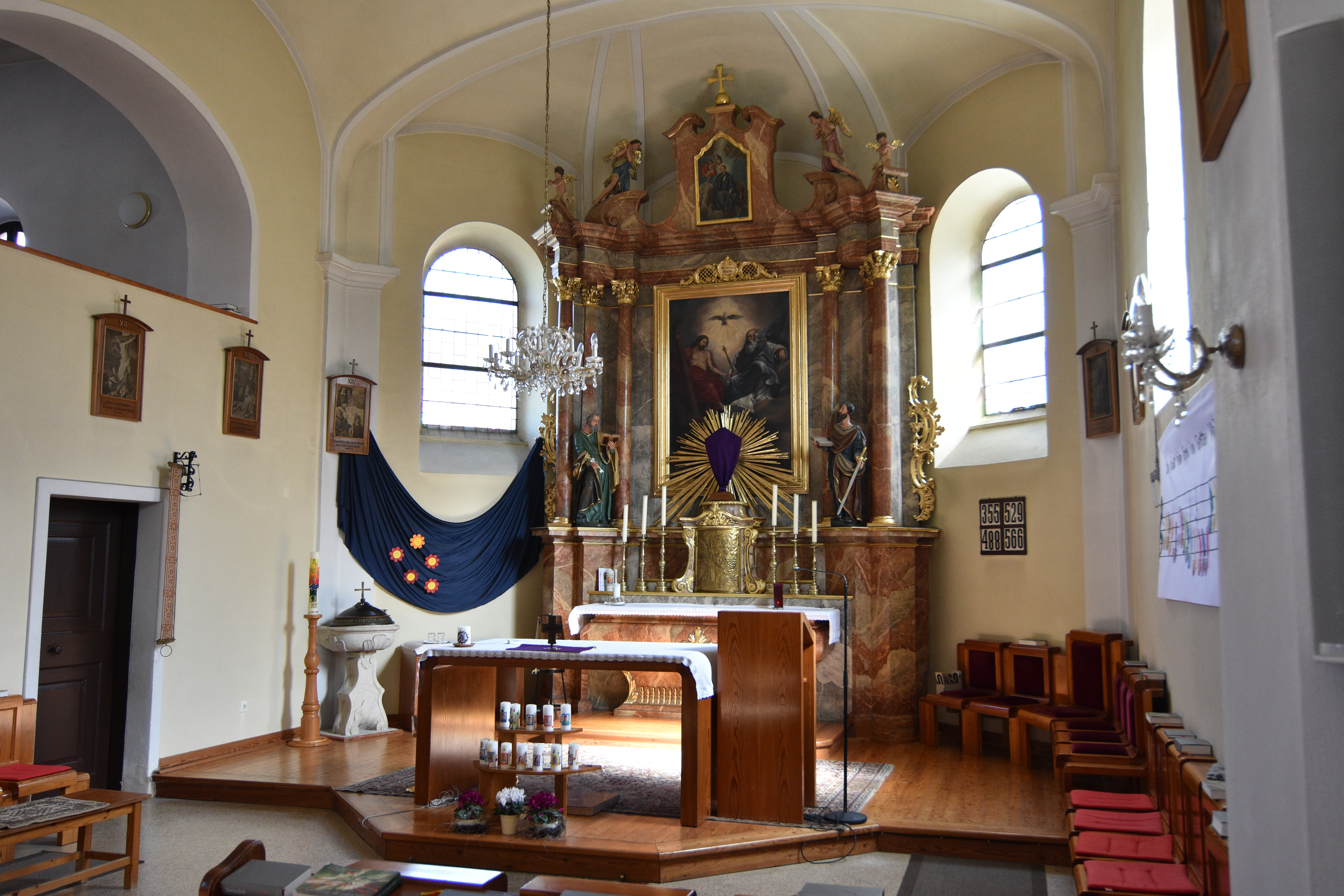 Church Hl. Dreifaltigkeit, Wolfau - Interior